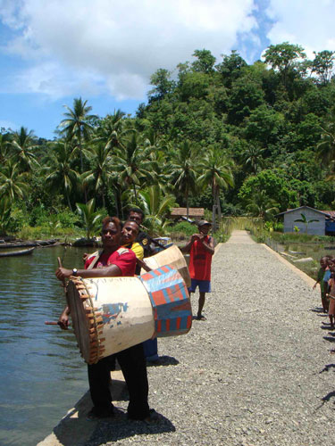 Village of Waifoi, at the northeastern end of Mayalibit Bay